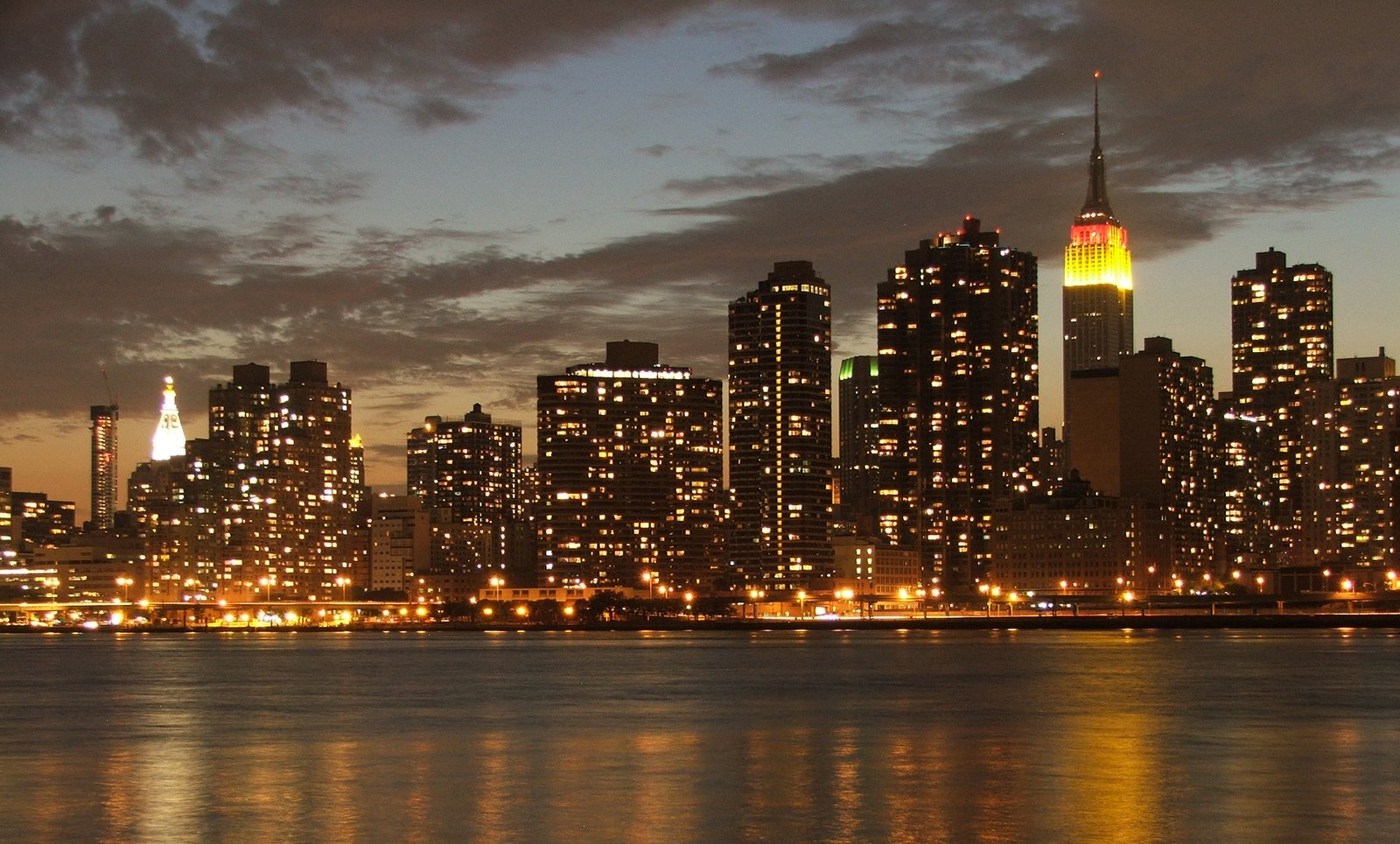 View of East River and Мidtown Manhattan Skyline at Night from Gantry Plaza State Park, Long Island City